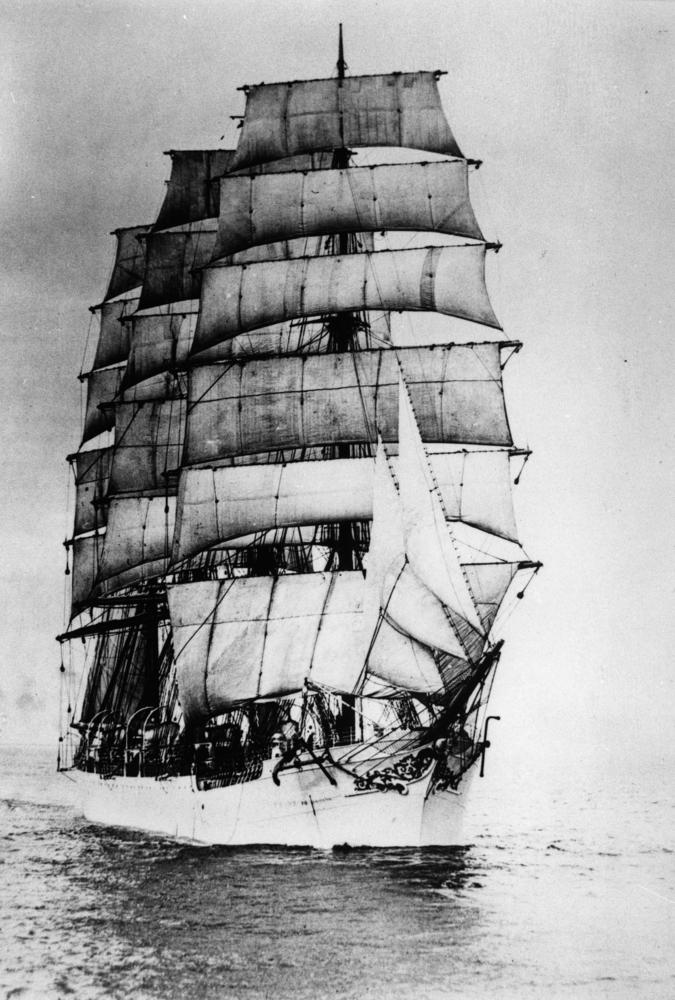 Viking, under Dannish flag.